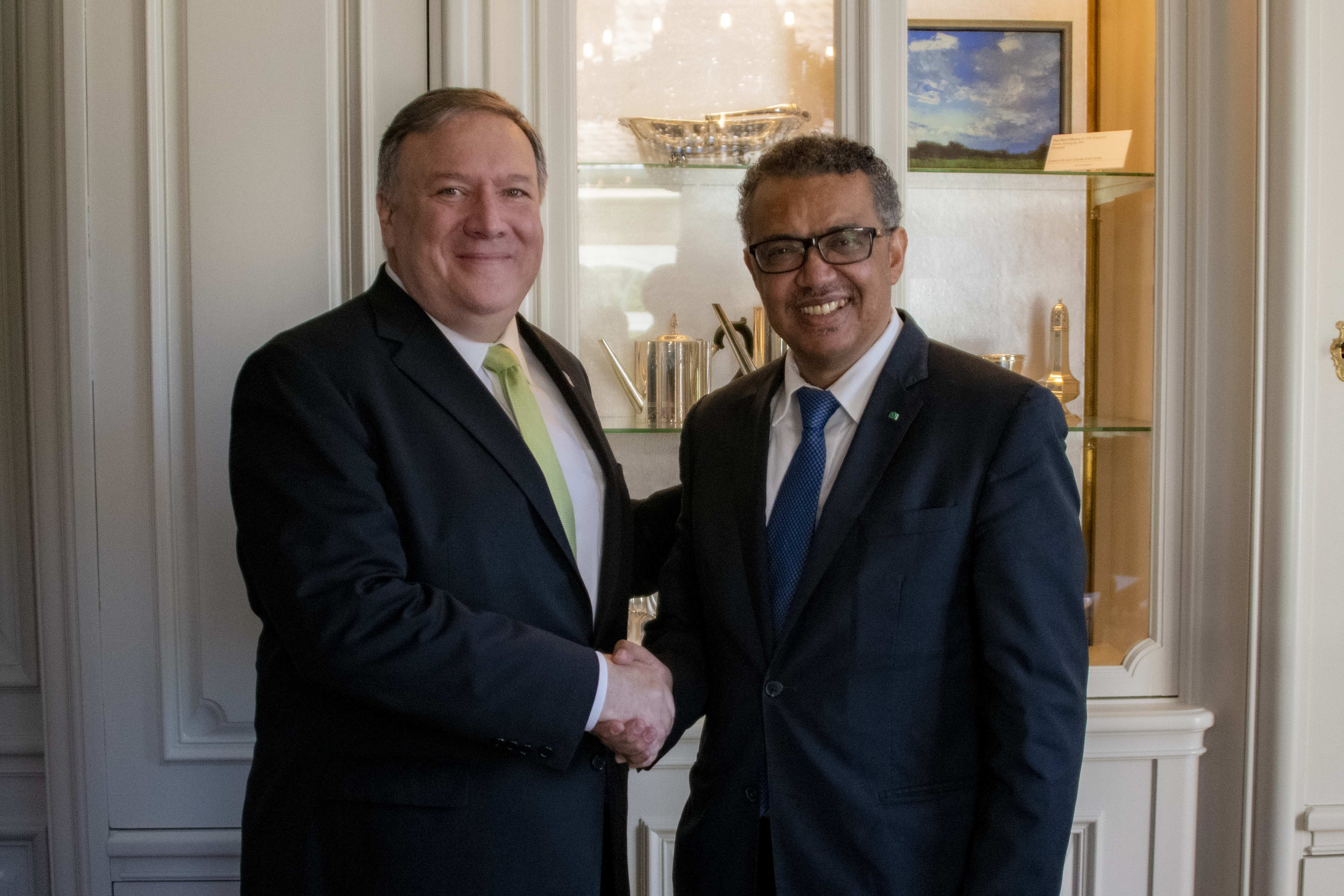 U.S. Secretary of State Michael R. Pompeo meets with World Health Organization Director General Dr. Tedros Ghebreyesus, in Bern, Switzerland, on June 3, 2019. [State Department Photo by Ron Przysucha/ Public Domain]